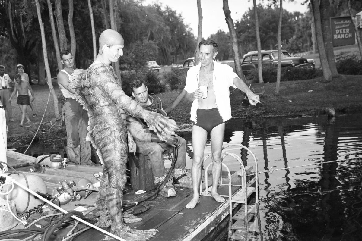 "Creature from the Black Lagoon" (1954) was released by Universal Pictures, directed by Jack Arnold, and starring Julia Adams and Richard Carlson. Florida-native Ricou Browning played the creature (Gill Man) in water and Hollywood actor Ben Chapman played him on land. The water scenes were filmed at Wakulla Springs, while the sequel was filmed in Jacksonville, Marineland, and Silver Springs. Both were originally shown in 3-D.